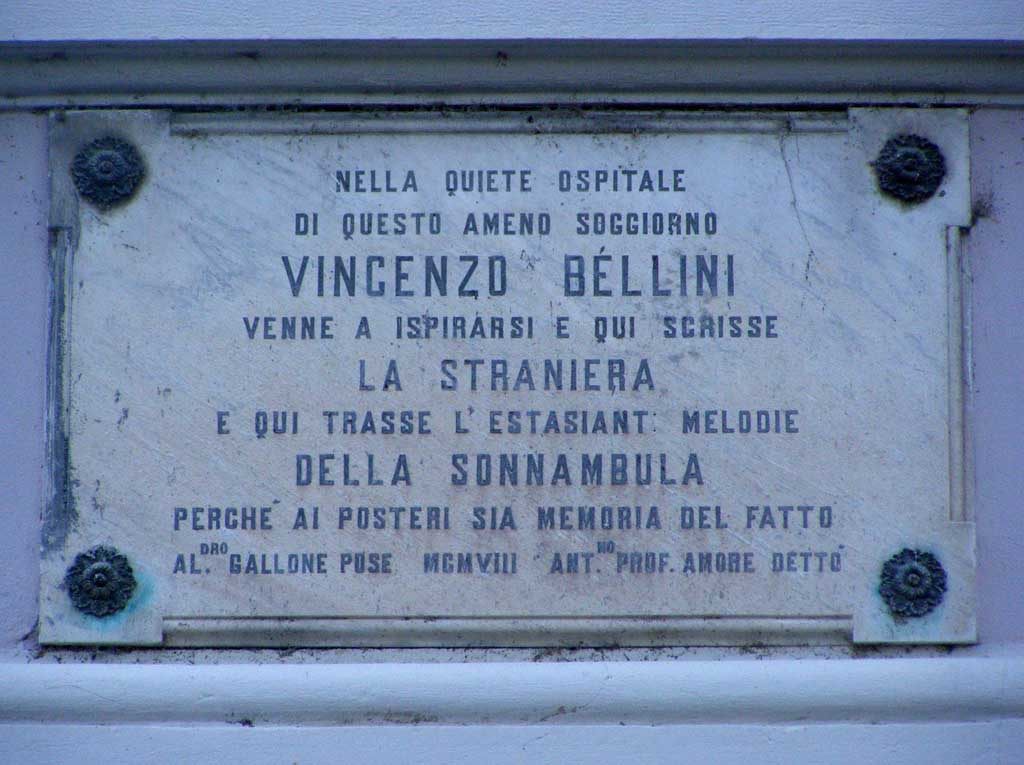 Vincenzo Bellini in Moltrasio (Lake Como, Italy).